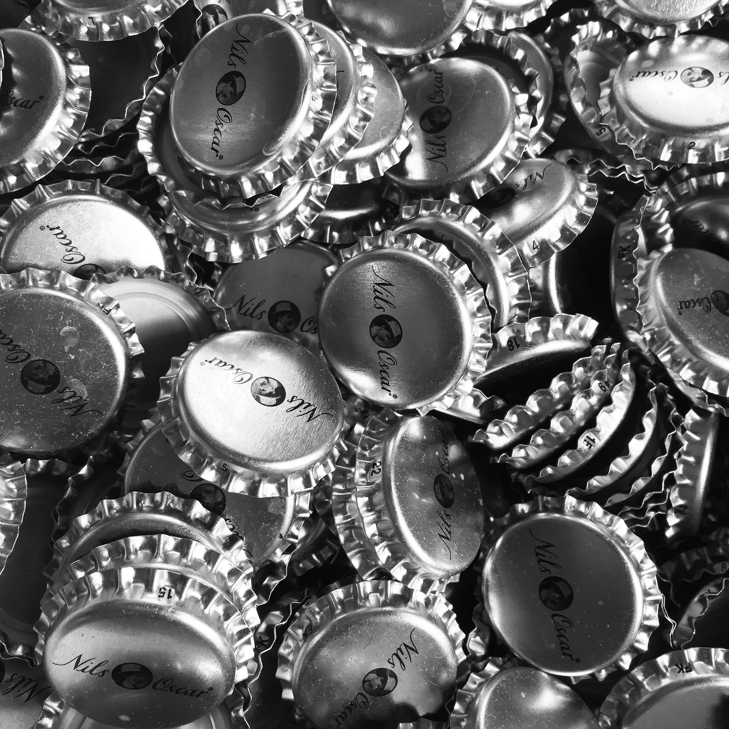 Nils Oscar caps